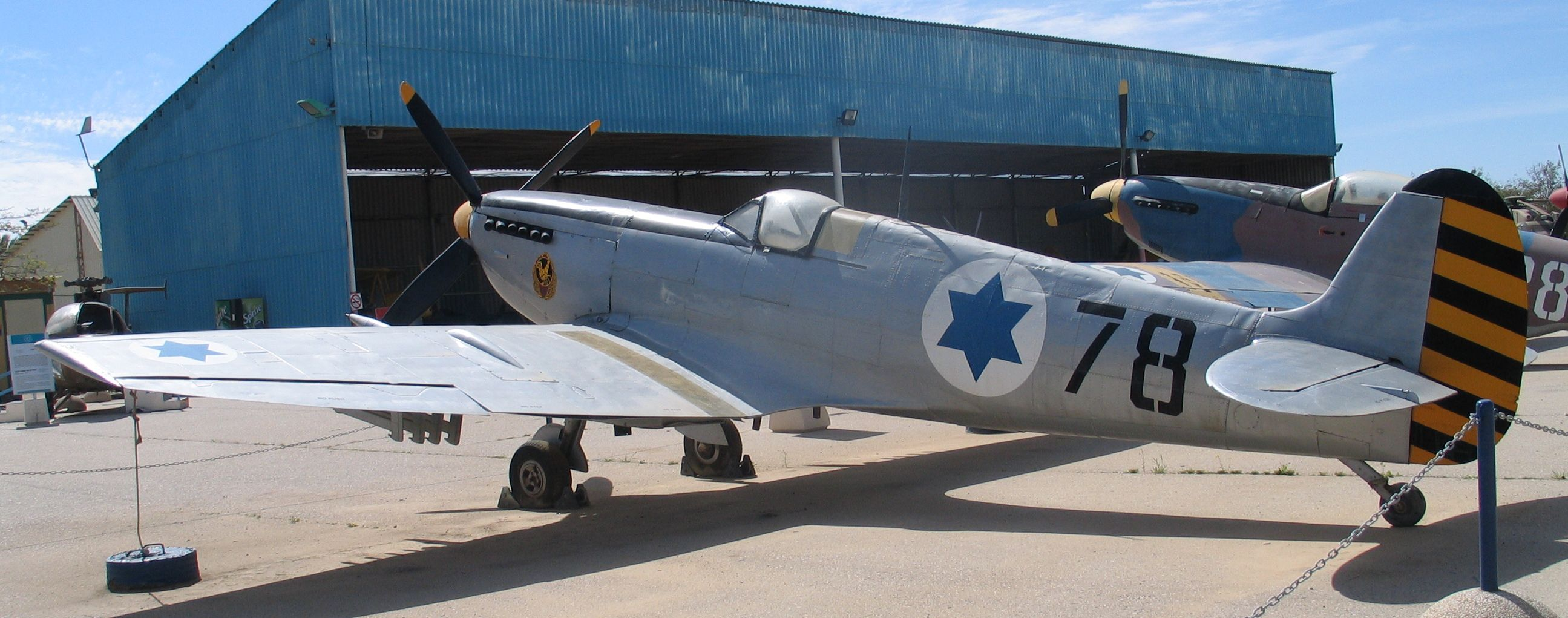 Description: Supermarine Spitfire Mk IX at Muzeyon Heyl ha-Avir, Hatzerim airbase, Israel. 2006. Source: Photo by me, User:Bukvoed.